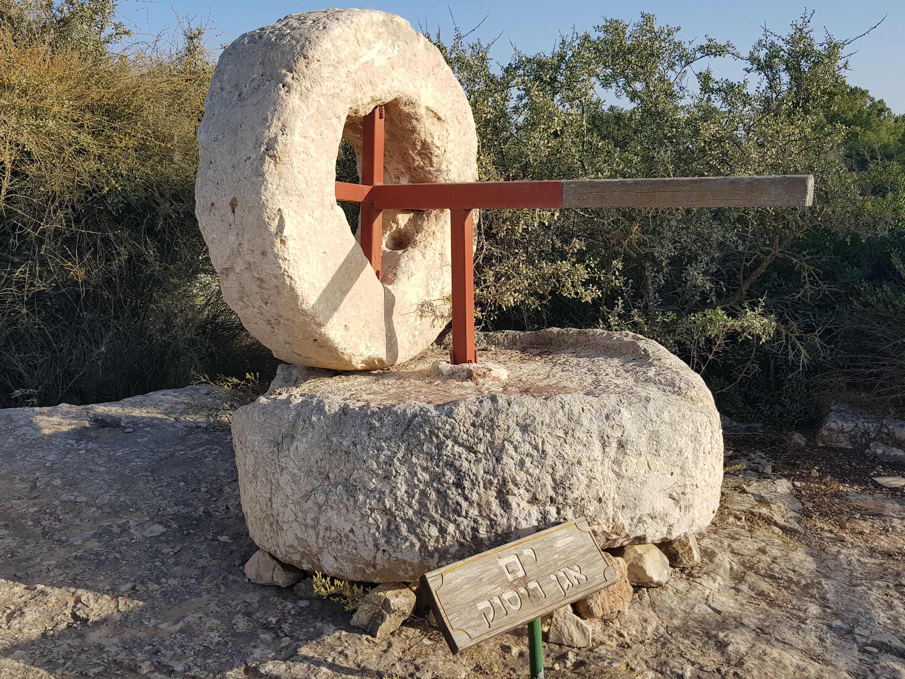 Findings on Hovela Hill12